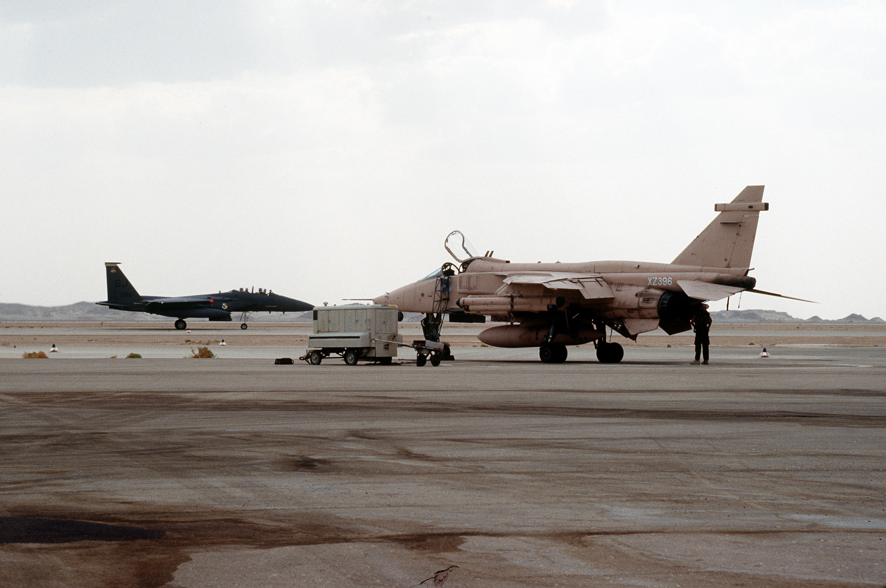 A Royal Air Force SEPECAT Jaguar GR1 aircraft (s/n XZ396) from No. 41 Squadron, RAF, is serviced on the flight line (probably in Bahrain) as a U.S. Air Force McDonnell Douglas F-15E-44-MC Strike Eagle aircraft (s/n 87-0198) from the 4th Tactical Fighter Wing taxis in the background during operation "Desert Shield" on 23 January 1991.